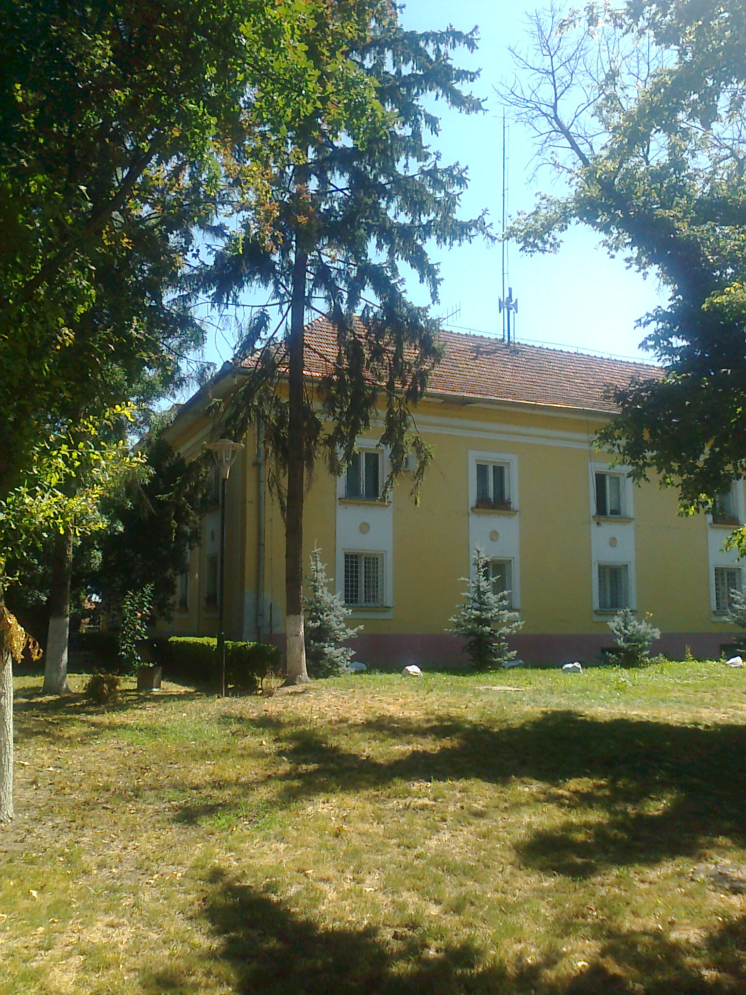 Csáky catle in Marghita (Romania) built before 1918